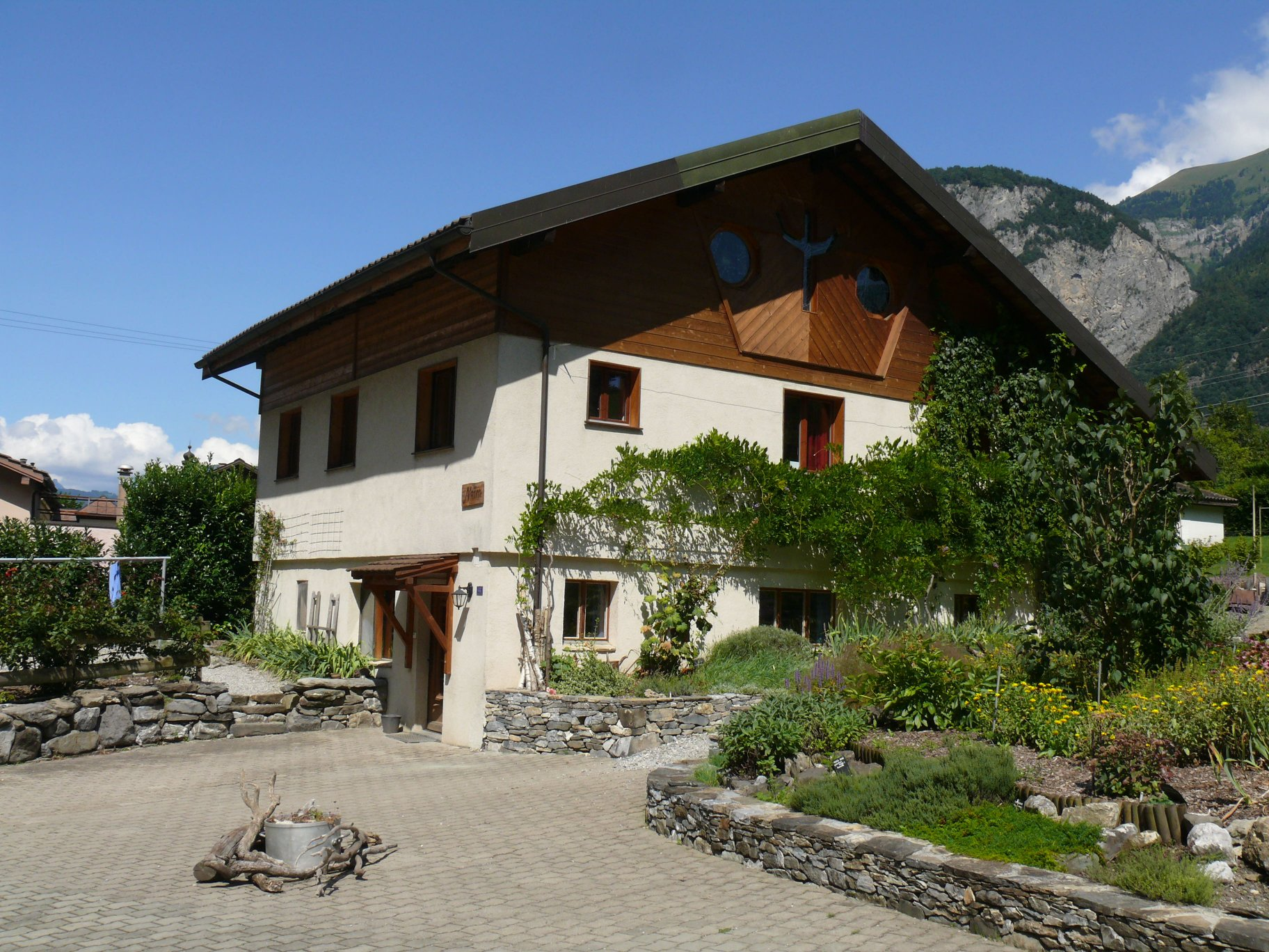 The house of fraternity Eucharistein at Epinassey (Valais, Switzerland).